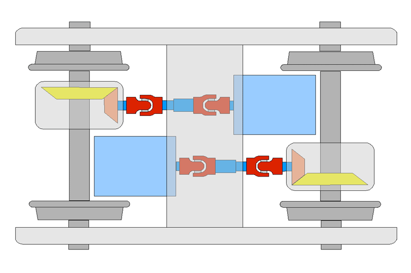 A schematic view of the Cardan Drive.